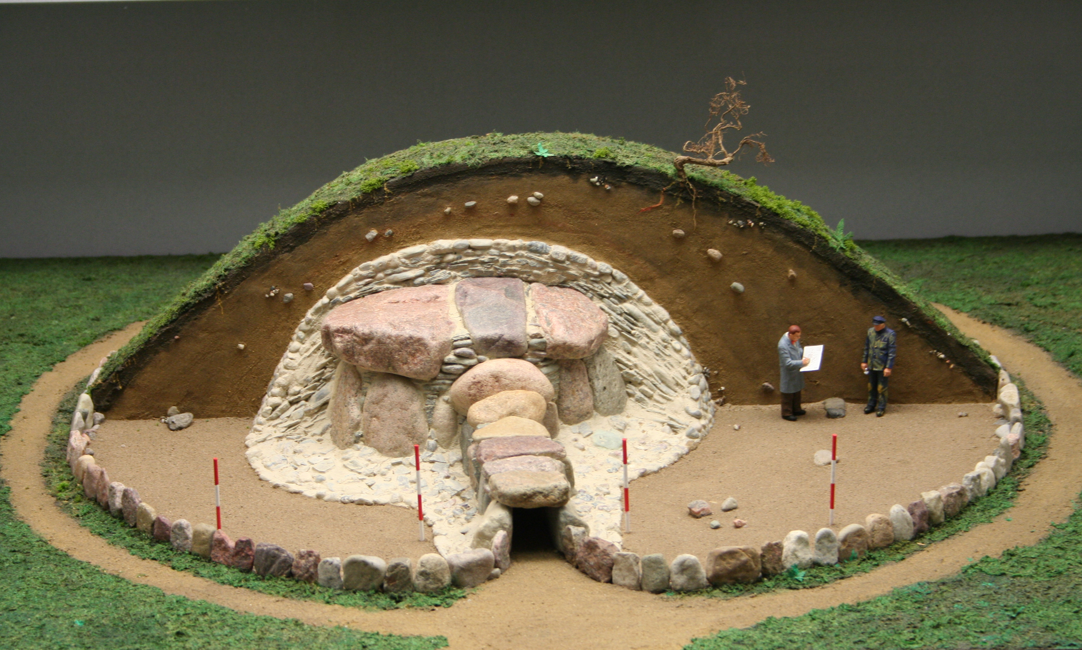 Archaeological state museum Schleswig-Holstein, Gottorf Castle